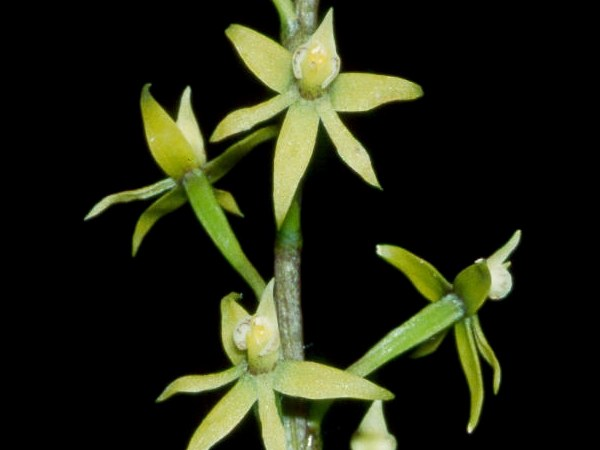 Prosthechea grammatoglossa